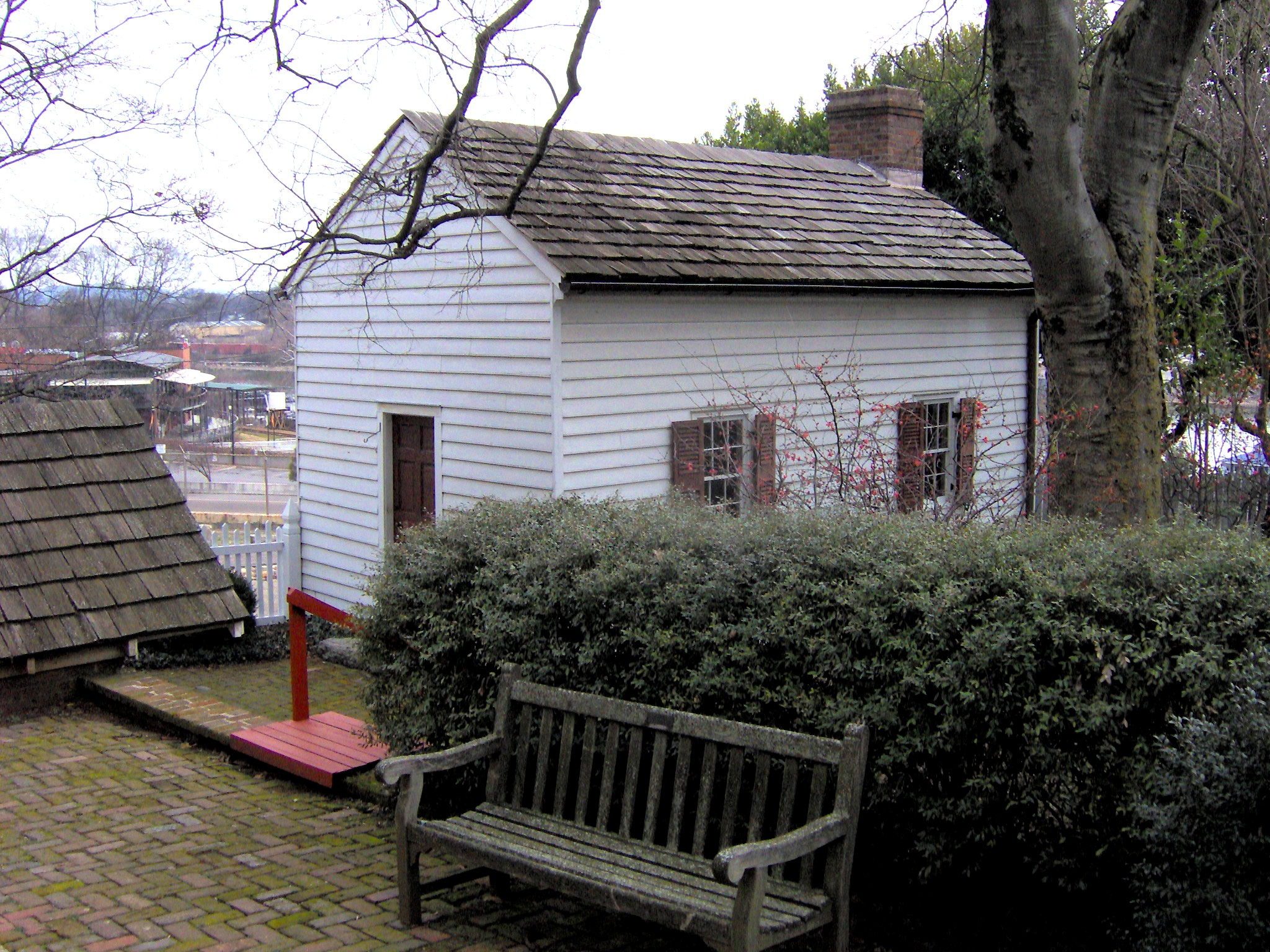 The Blount Mansion Governor's Office in Knoxville, in the U.S. state of Tennessee. This structure, behind the mansion's east wing, was used as an office by early Tennessee statesman William Blount in the 1790s. It was restored in the 1950s. The Tennessee River is visible through the treeline on the right.